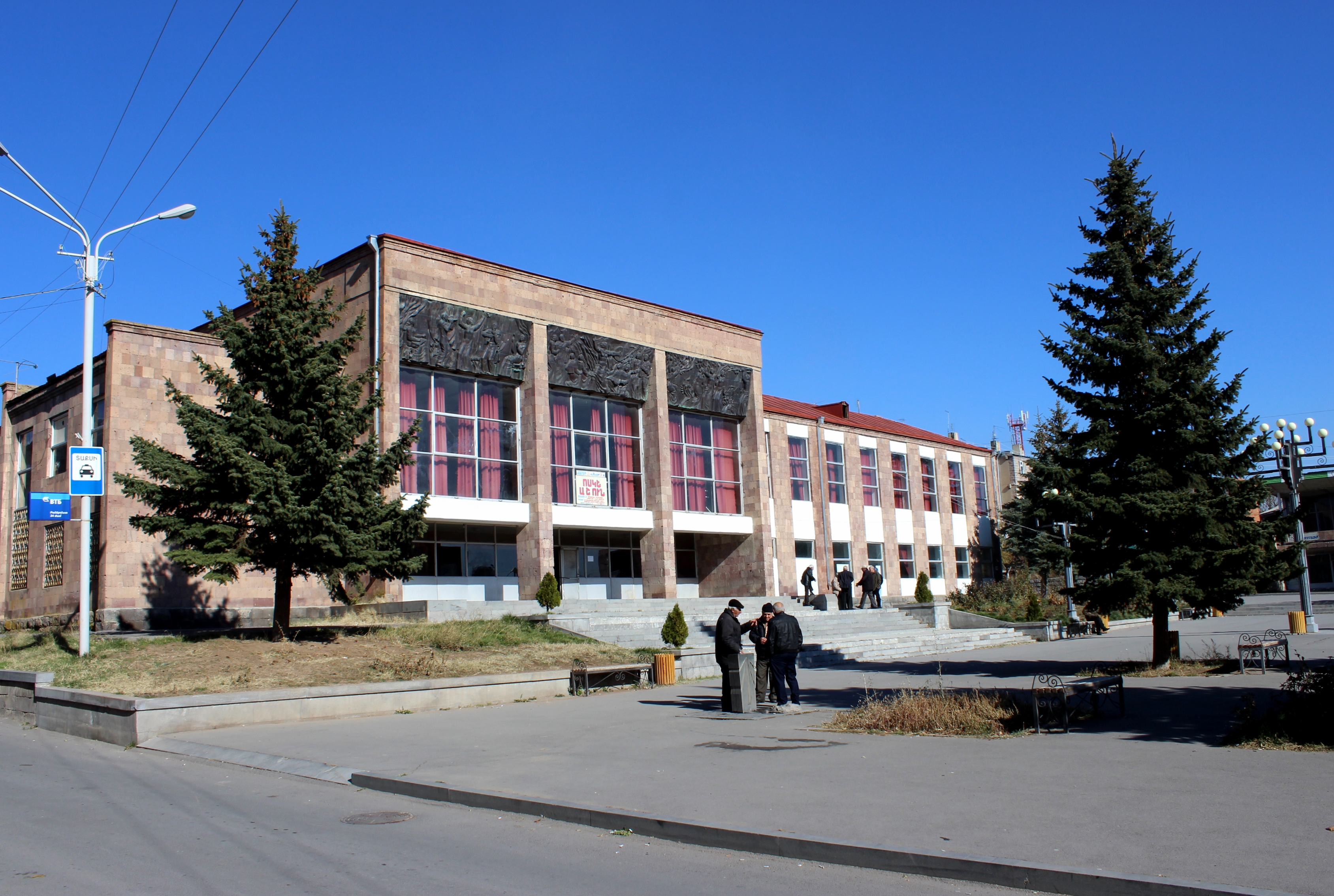 Town square at the intersection of the Talin-Arteni Rd. and Spandaryan St. in Talin, Aragatsotn Province, Armenia.